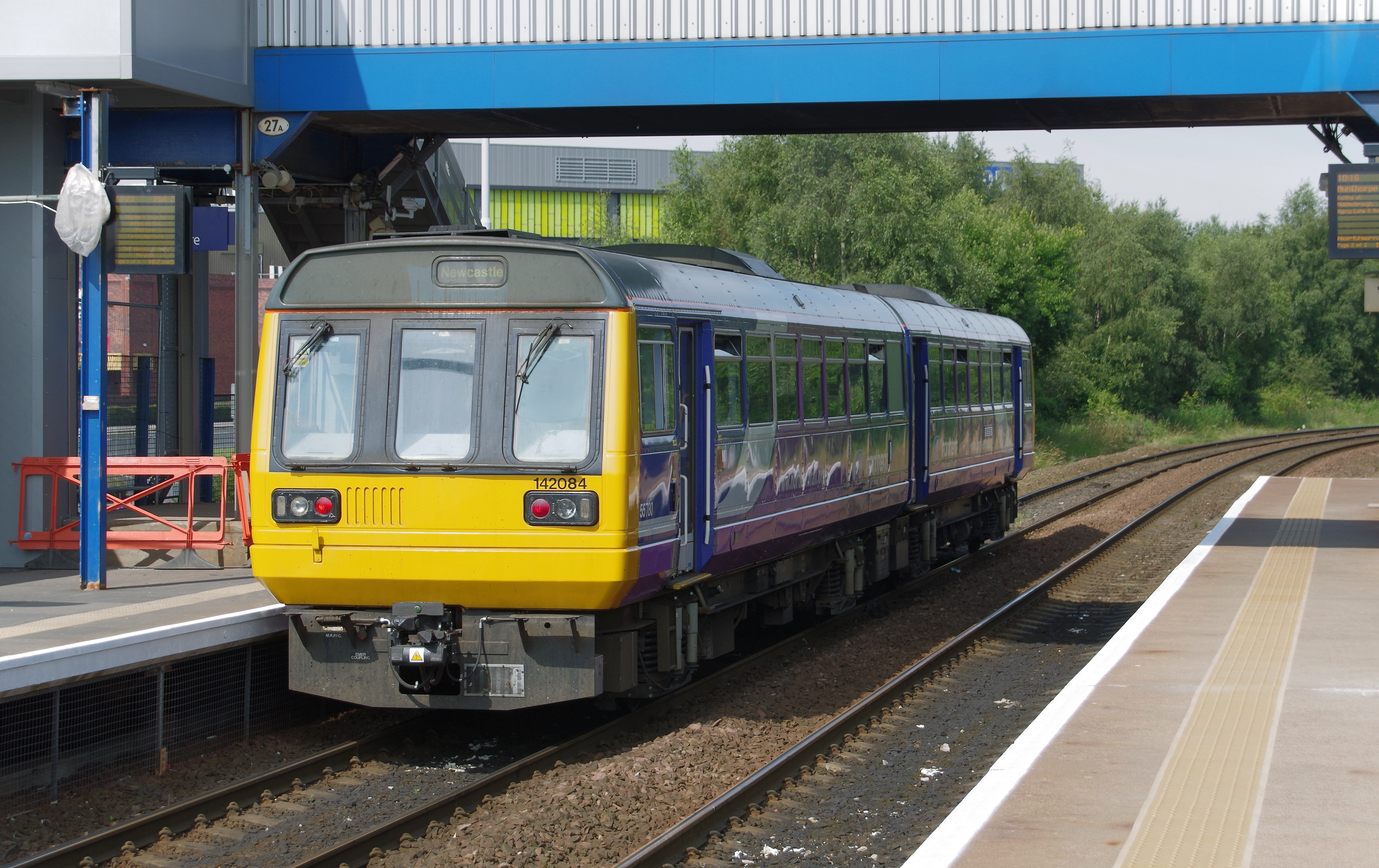 Northern Rail class 142 "Pacer" DMU 142084 departs Metrocentre, heading for a reversing siding.